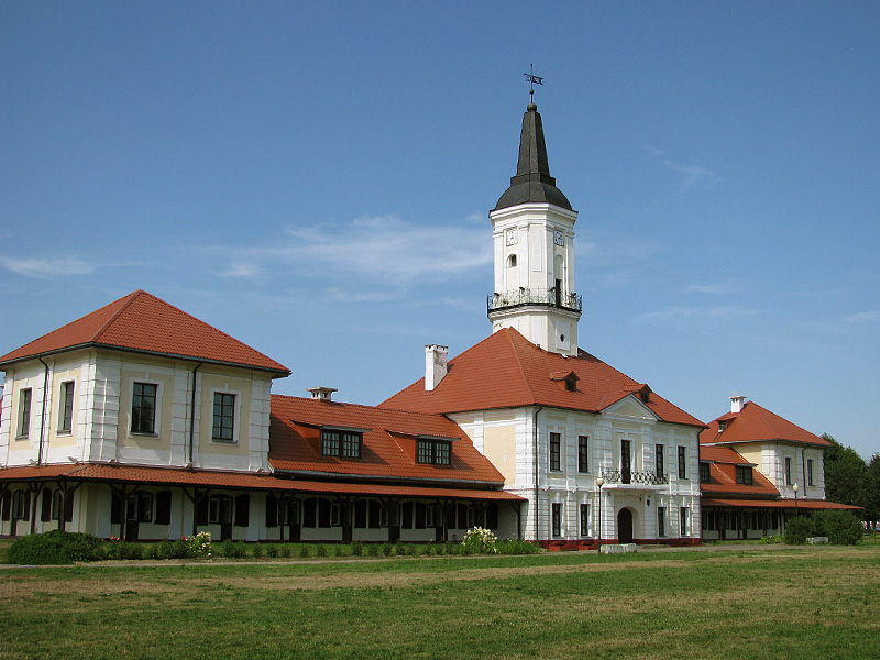 Беларуская (тарашкевіца): Ратуша. г. Шклоў This is a photo of Belarusian heritage monument. Reference number: 512Г000565 ( WLM)